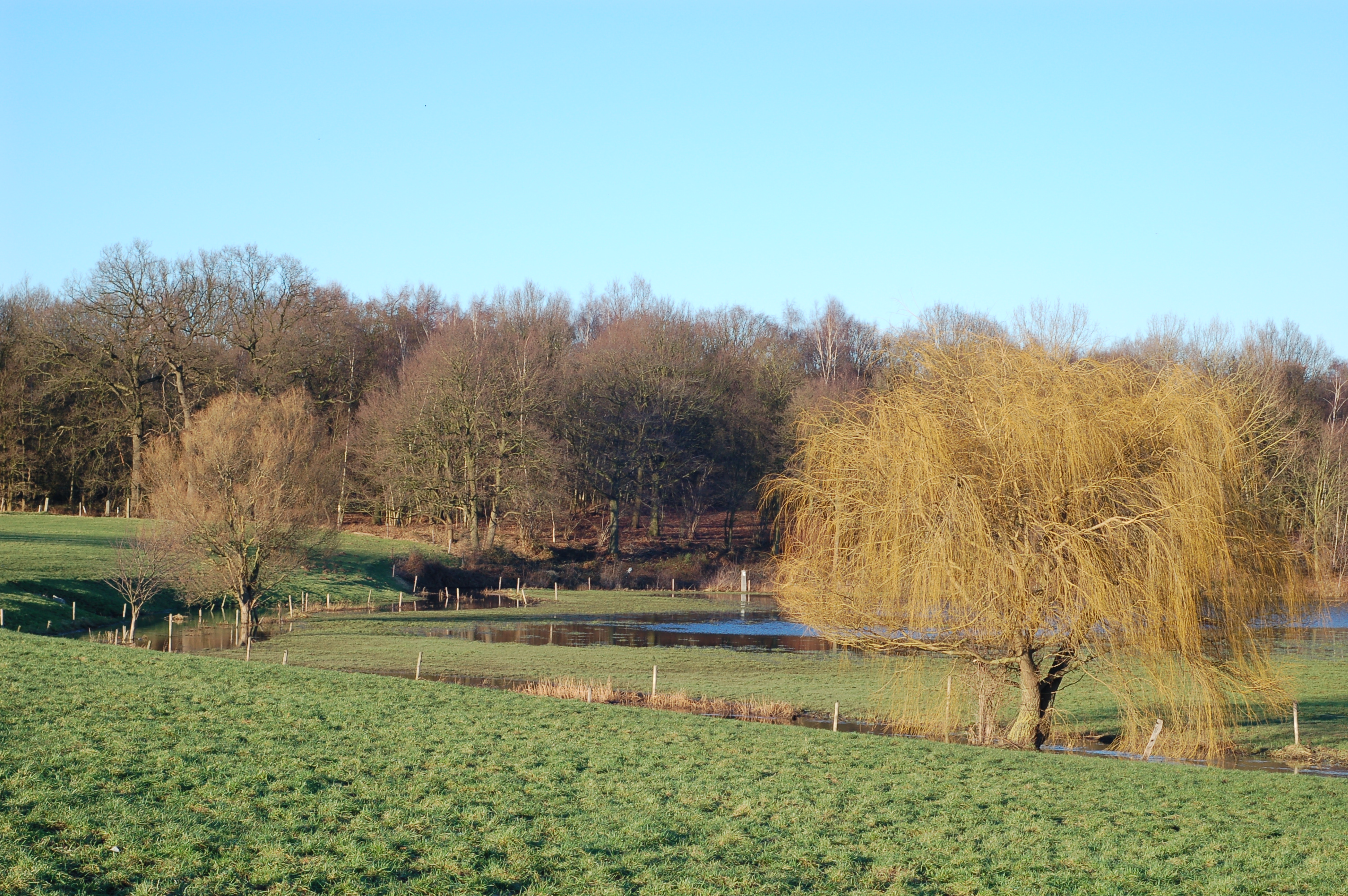 The Schaafbach in Heinsberg-Karken, Germany, at the frontier to the Nederlands